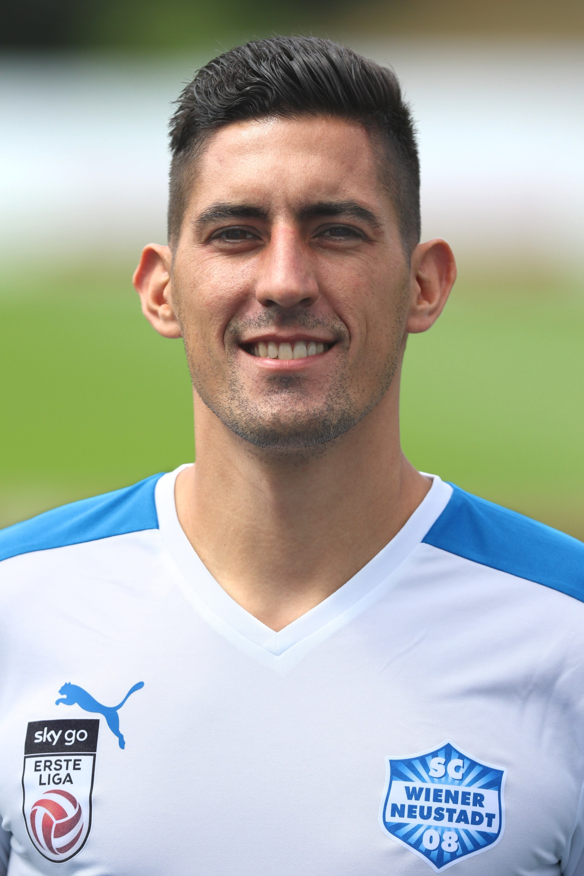 SC Wiener Neustadt squad presentation summer 2017. – The photo shows Alberto Prada.